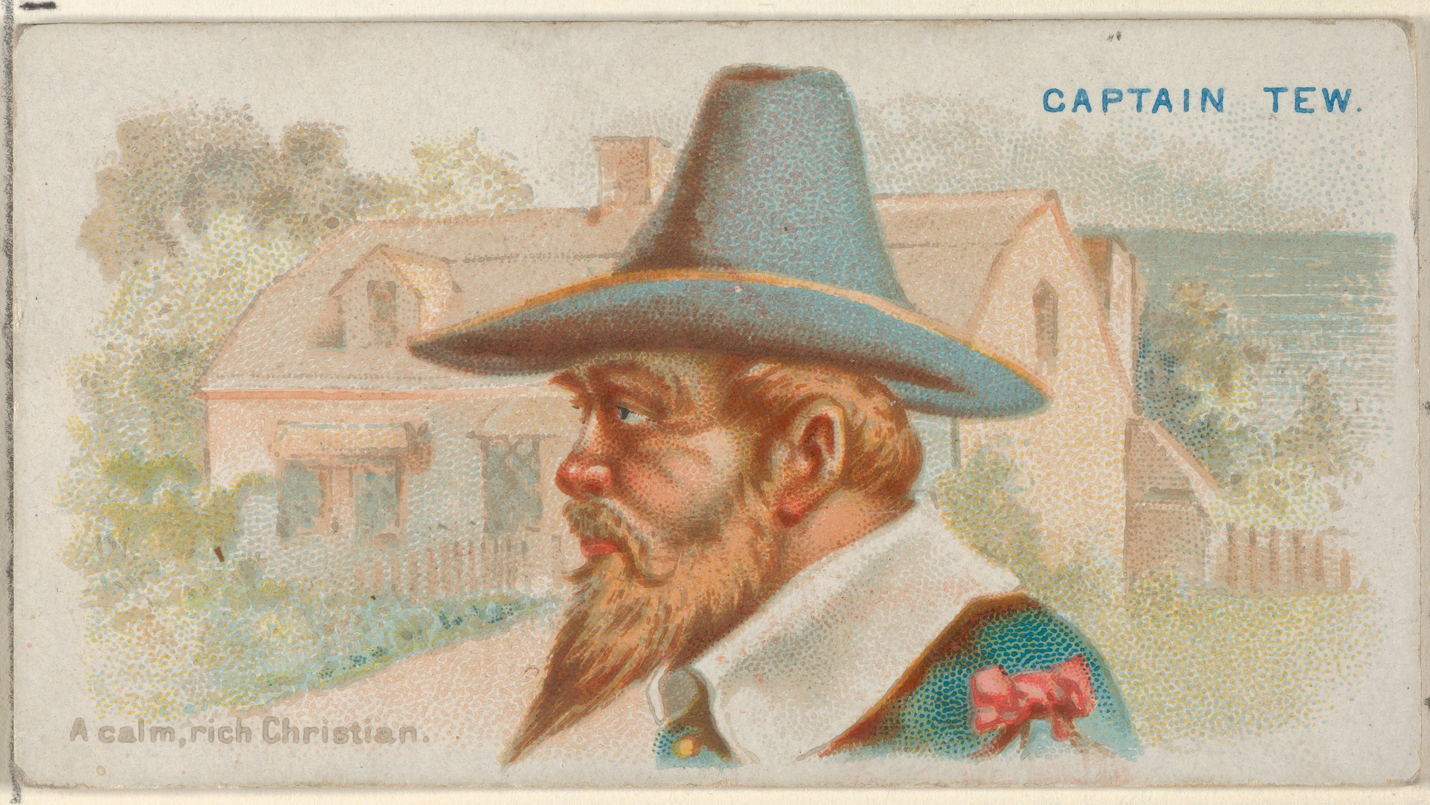 Print; Prints